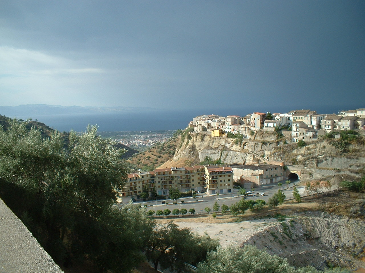 View back down to Rossano, Via I Torre and tunnel exit